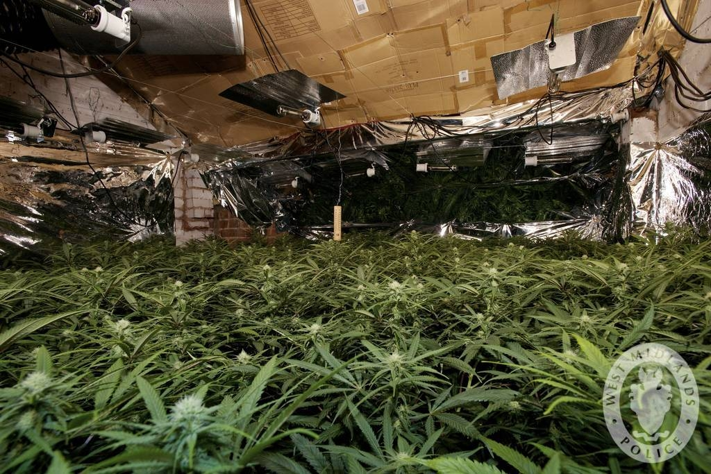 A year-long crackdown on drugs in Lozells and Handsworth has seen hundreds-of-thousands of pounds of drugs taken off the streets of Birmingham in 2012. Officers forcing entry to an address during a recent drugs warrant. Over half-a-million pounds worth of cash and drugs were seized over the 12 month period across the ward, with officers taking action following concerns raised by local residents. A total of 449 cannabis plants were seized throughout the year, including 94 mature plants and 140 seedlings from an address in Alfred Road. Officers also seized one-and-a-half kilograms of cannabis that was bagged up ready for sale in 2012. This included one warrant that resulted in half-a-kilo of the drug being recovered from an address in Robert Road. Heroin was also seized during 12 of the warrants, with an estimated street value of £25,000. In excess of 200 grams of crack cocaine was also seized, with one warrant back in February resulting in a large ball of the drug being found in a car outside an address in Albert Road. As well as these drug seizures, officers from the team uncovered and confiscated more than £250,000 worth of cash suspected of being gained through criminal means. This money, seized under the Proceeds of Crime Act, will be redistributed into the local charities, support groups and various youth organisations. Inspector Karen Geddes, responsible for policing across the Perry Barr constituency, said: “The Lozells and East Handsworth neighbourhood team have been relentless in identifying and taking action against drug crime. “Dozens of arrests have been made in relation to these warrants and several criminals are now behind bars thanks to the actions of the team.”